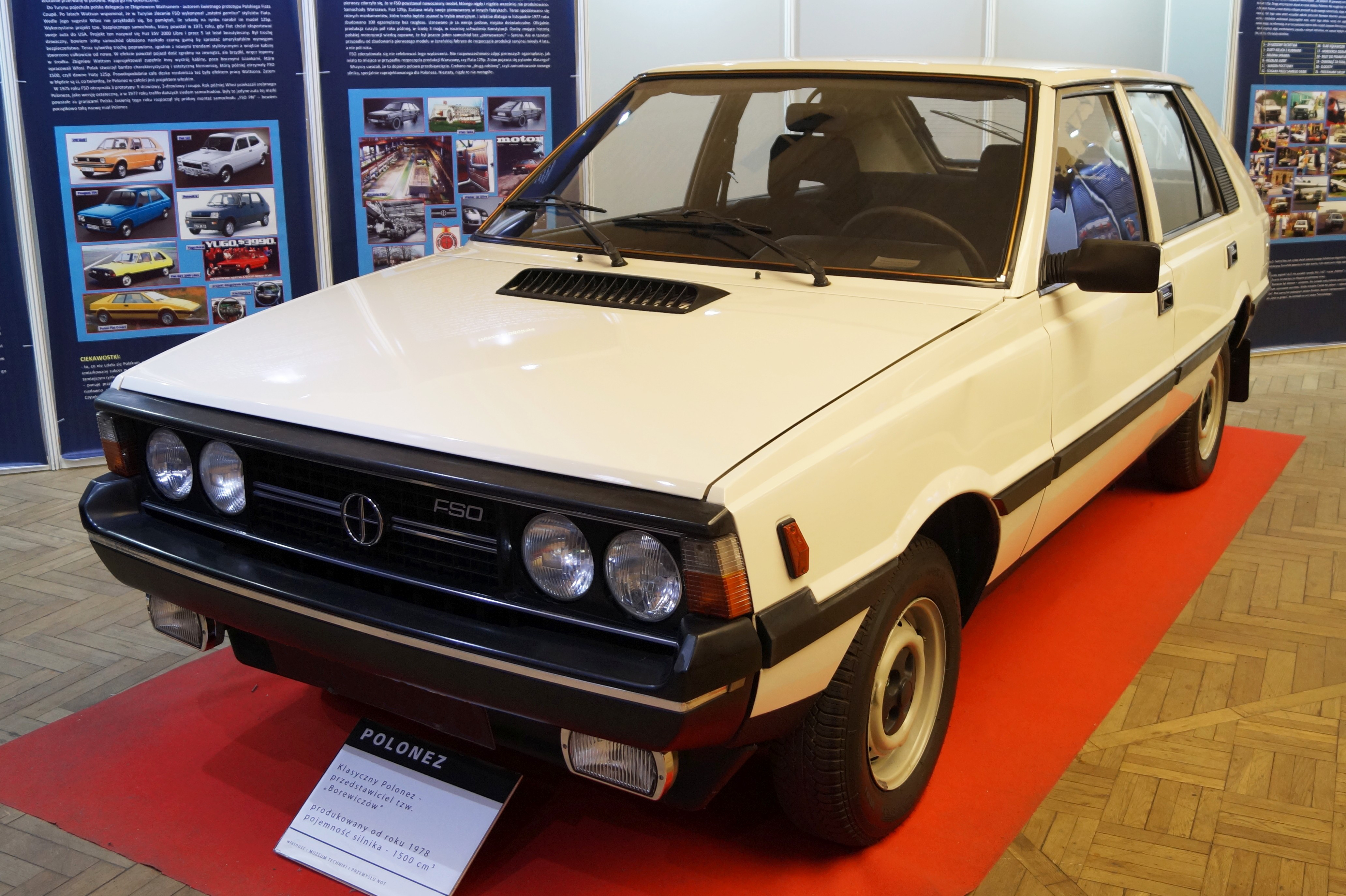 FSO Polonez MR'83 in Museum of Technology in Warsaw.